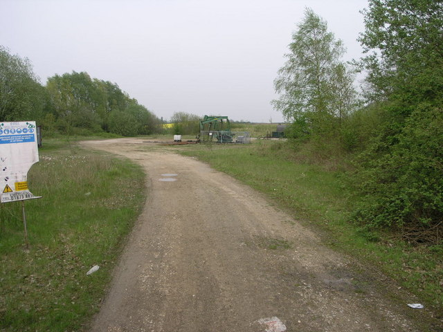 Inland Oil Well. This nodding donkey is pumping oil at Farley Wood.